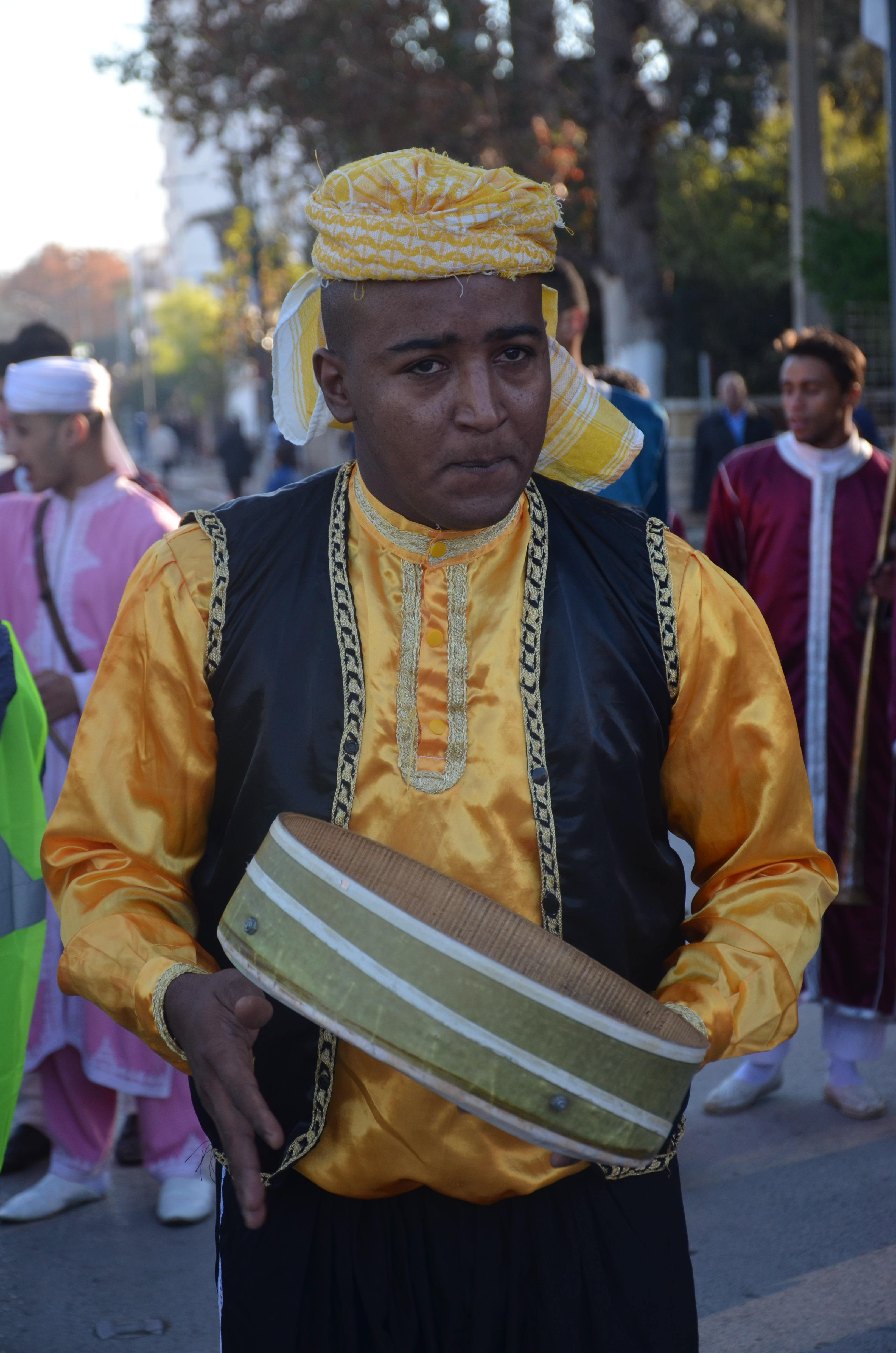 This is an image with the theme "Play" from: Algeria